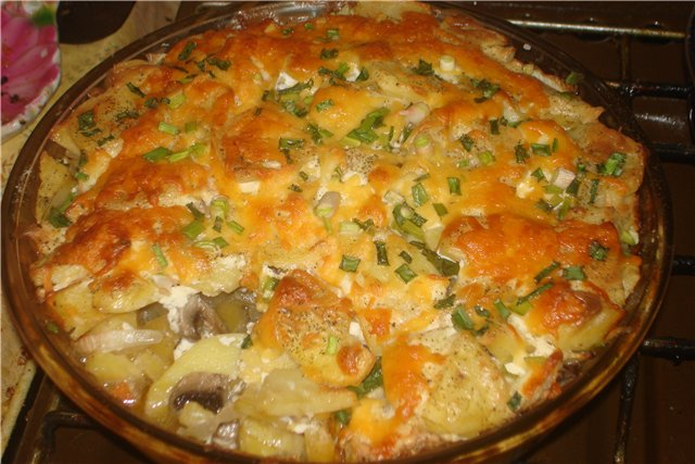 "French-style meat", a modern Russian version of veal Orloff